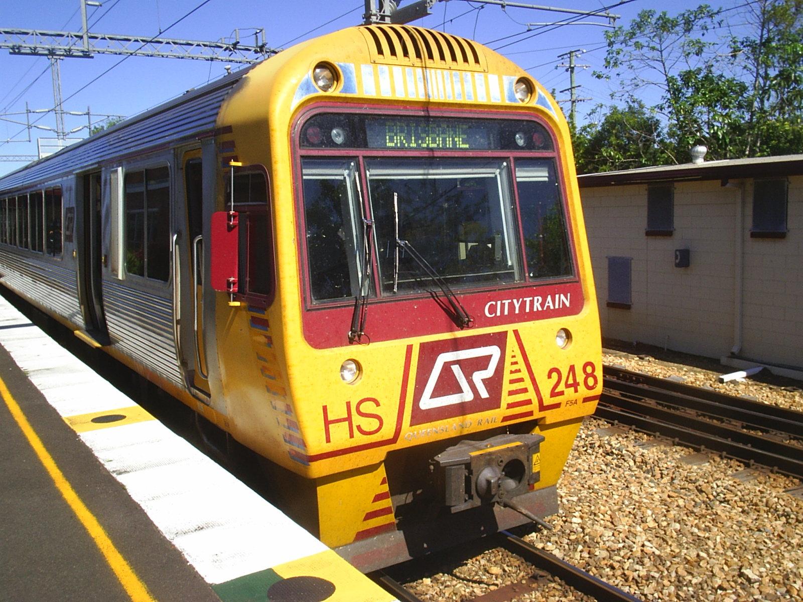 QR Suburban Multiple Unit HS (220 Series) 248 Starts its service from Nambour to Roma Street on 07/09/06. By Qld matt 13:12, 7 September 2006 (UTC)